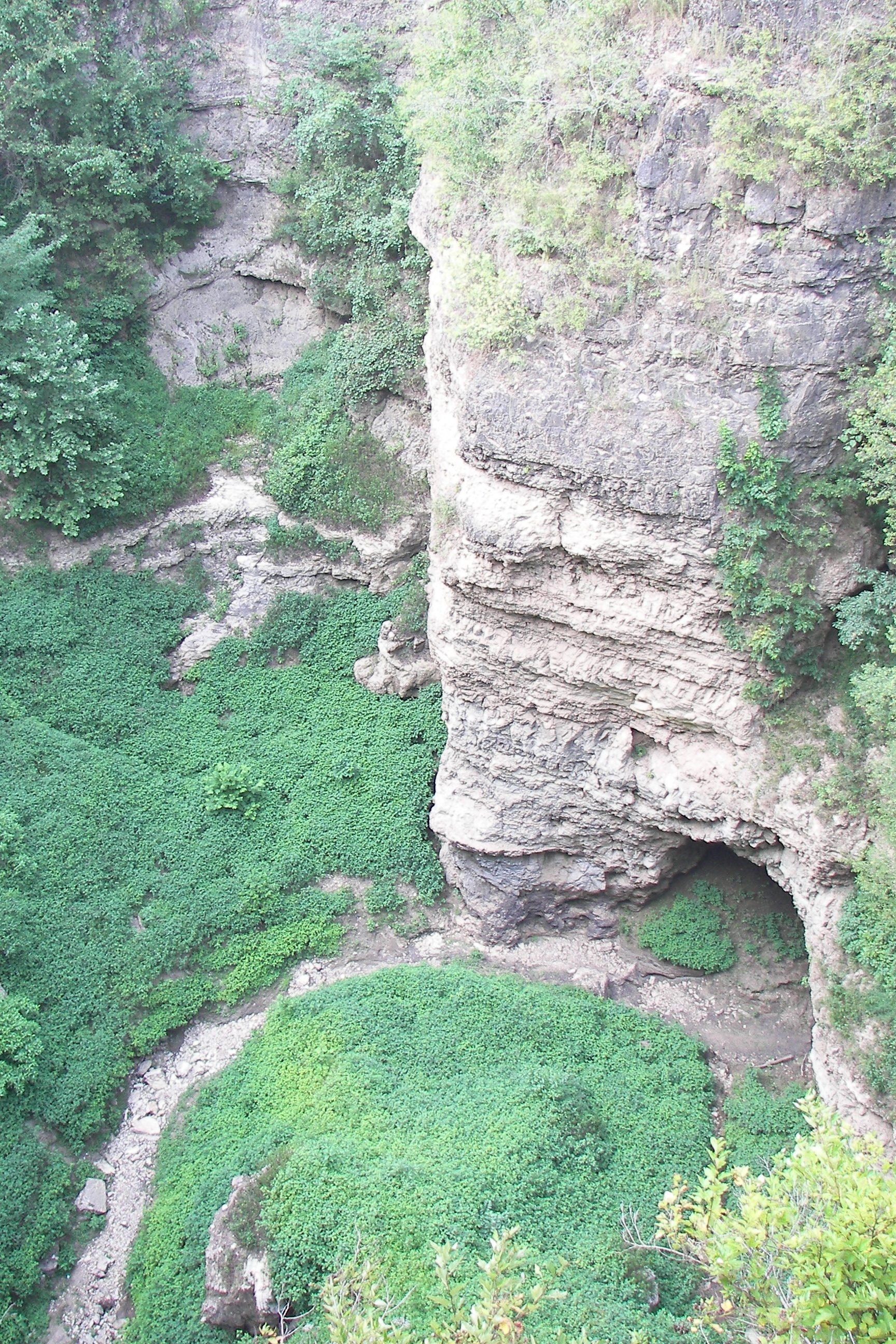 Grand Gulf State Park in Missouri. The stream flowing into this cave at the bottom of Grand Gulf, a huge Ponor, resurfaces at Mammoth Spring, Arkansas.